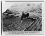 Photo from the Library of Congress collection. It was taken around 1890 and seems to be in the public domain since it does not have a copyright warning as some other of their pictures do.